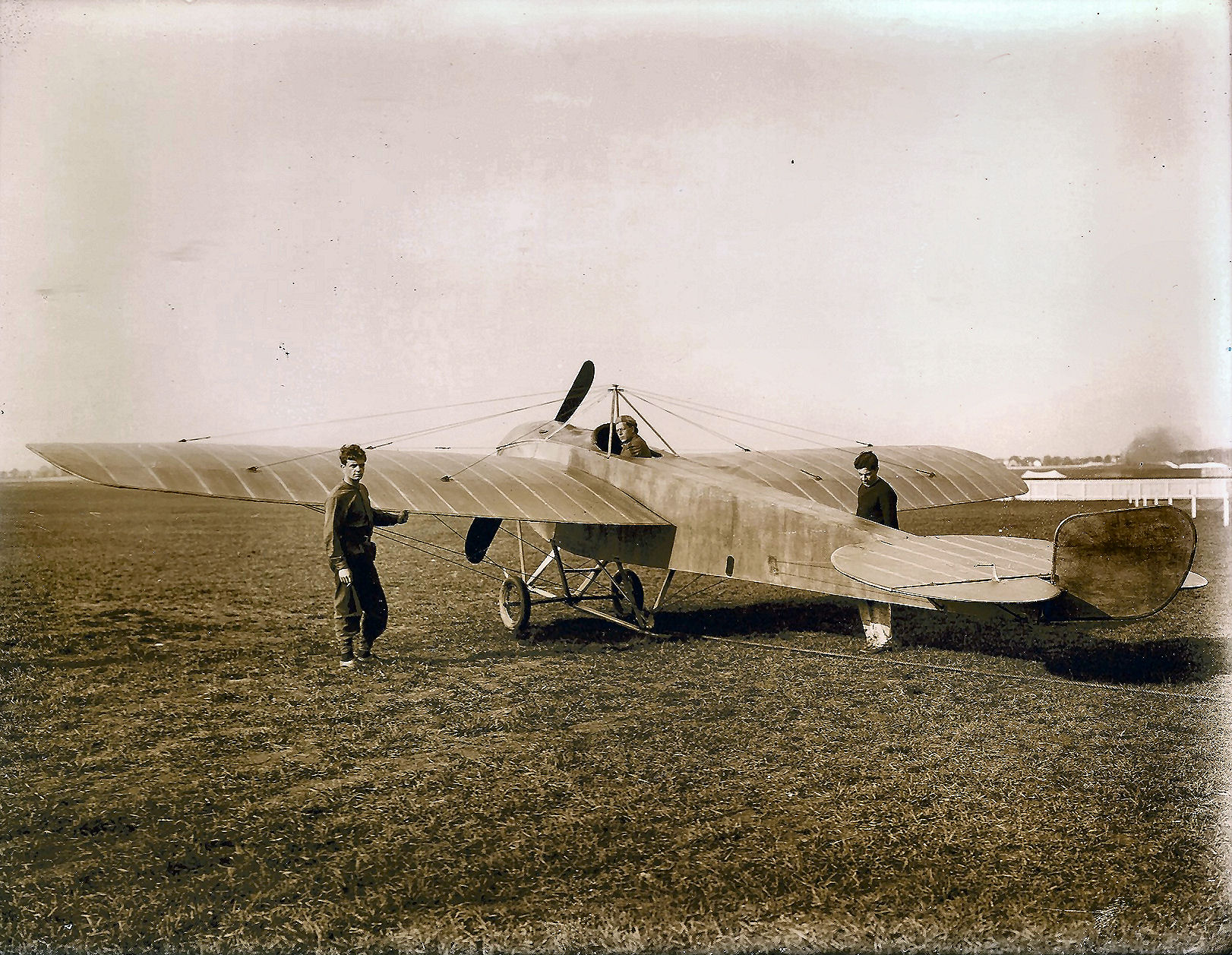 A Nieuport monoplane, possibly a Nieuport IVG. This plane was the property of Ernest Anderson, who was the first person in the United States to own a Nieuport plane. Picture taken circa 1911.